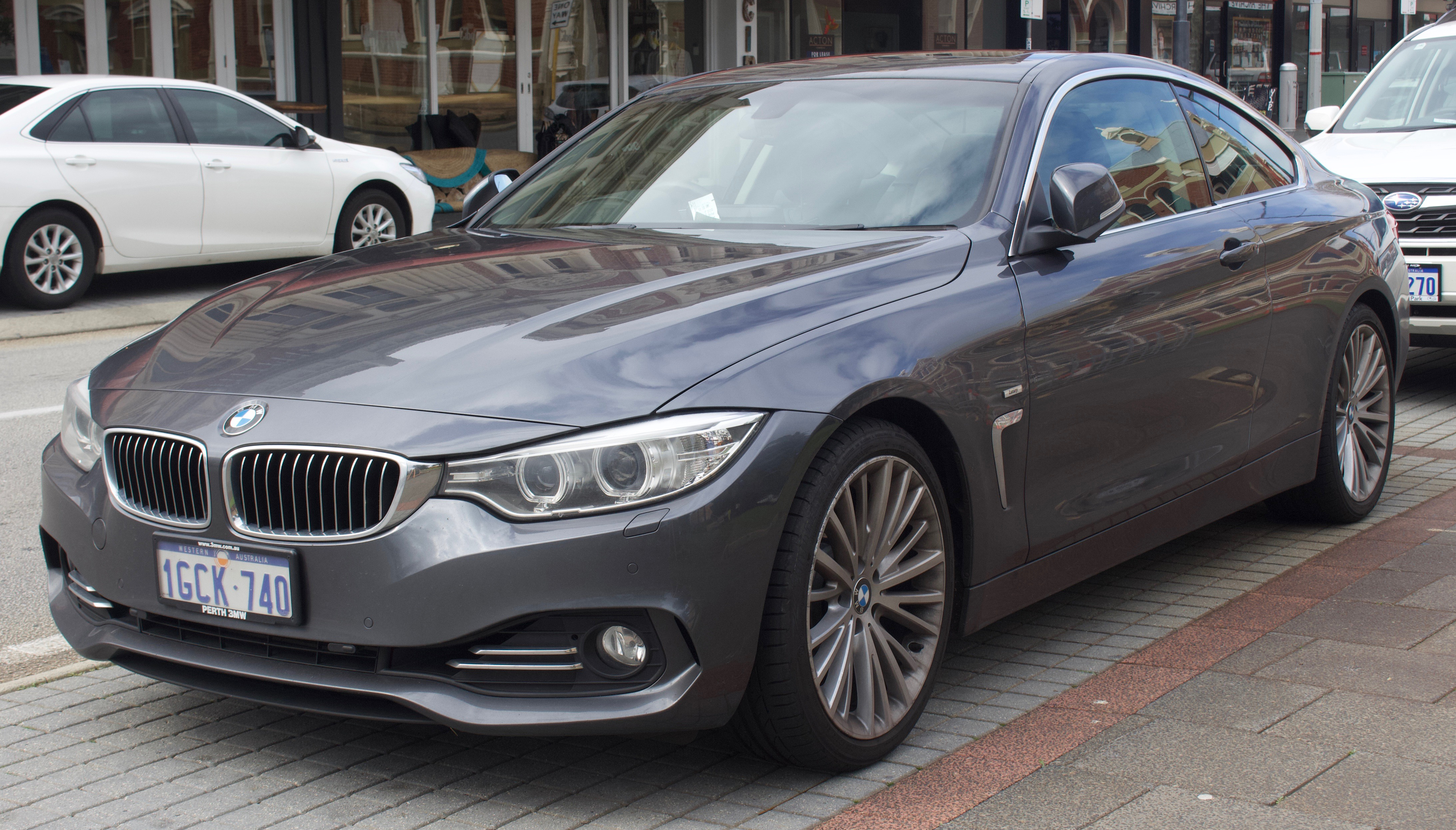 2016 BMW 428i (F32) Luxury Line coupe. Photographed in Fremantle, Western Australia, Australia.